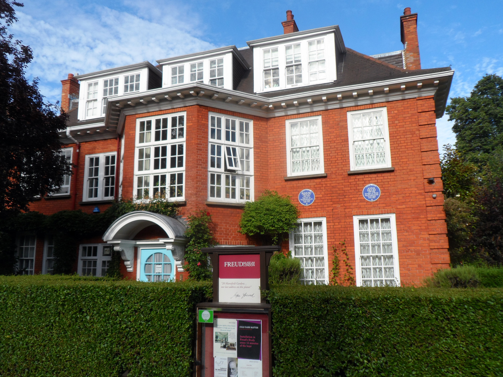 ANNA FREUD 1895-1982 Pioneer of Child Psychoanalysis lived here 1938-1982